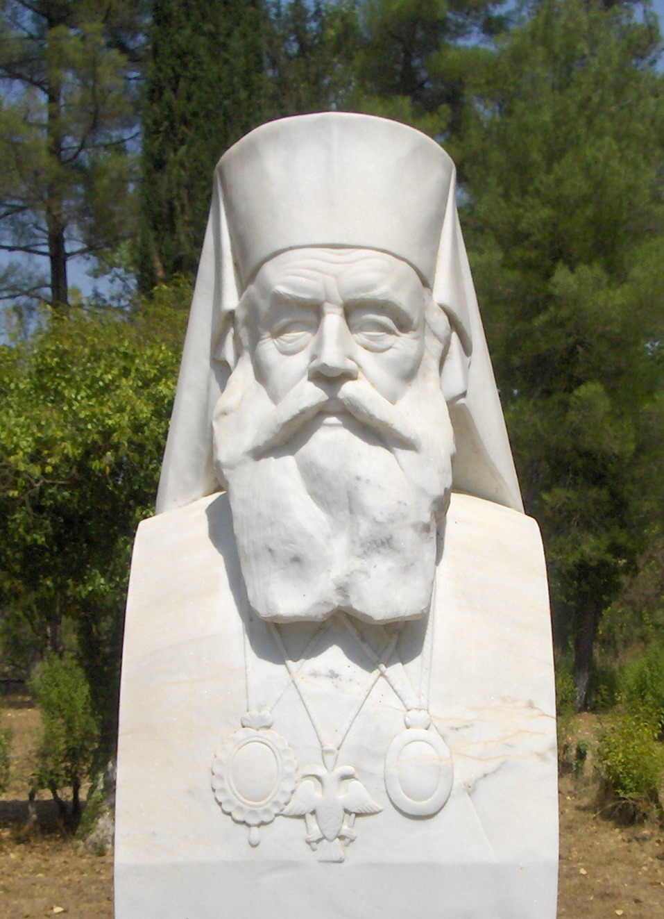 Bishop of Ioannina, Spyridon. 1912-1913 War Museum, Emin Agha Inn, Ioannina, Greece